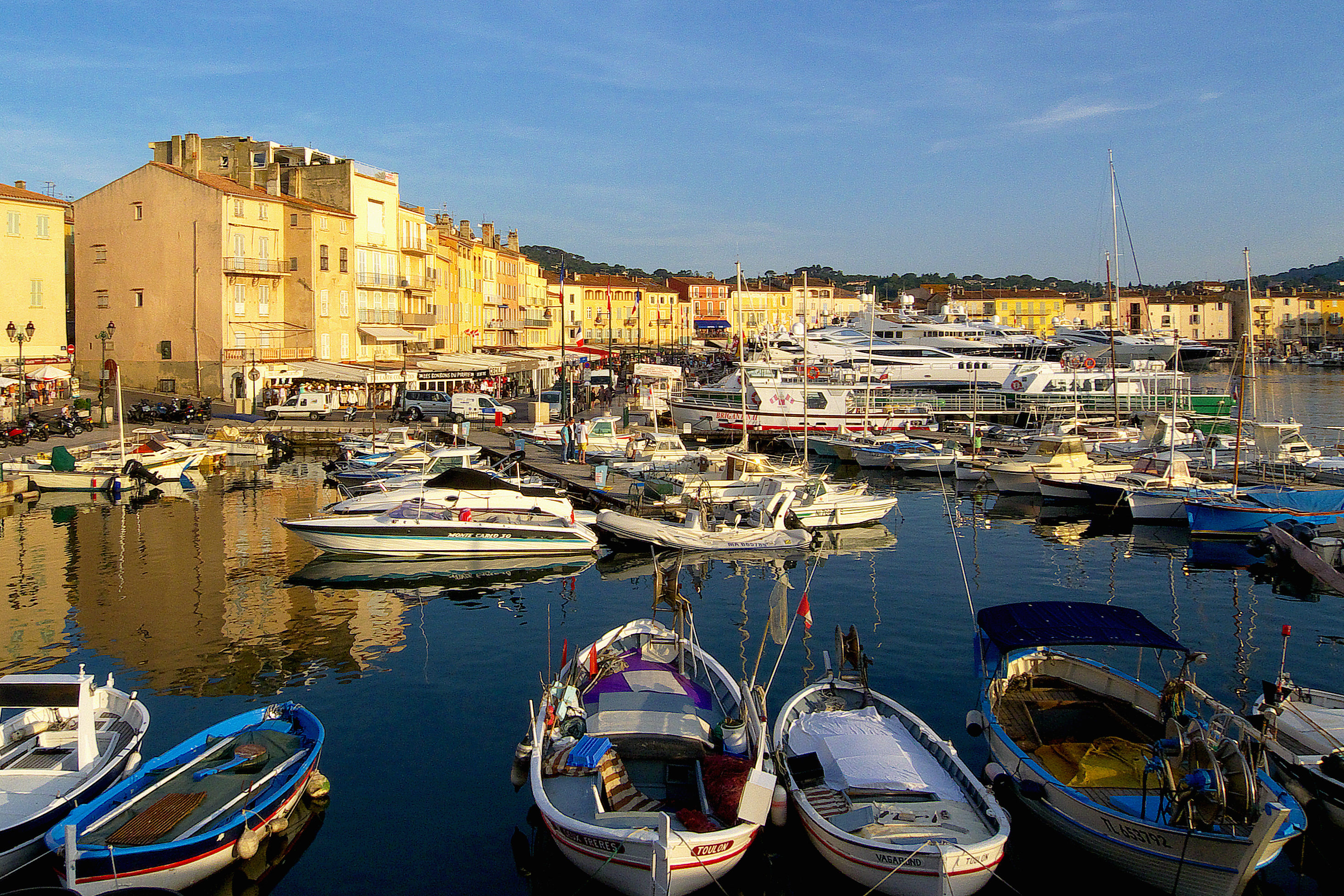 St. Tropez Harbour